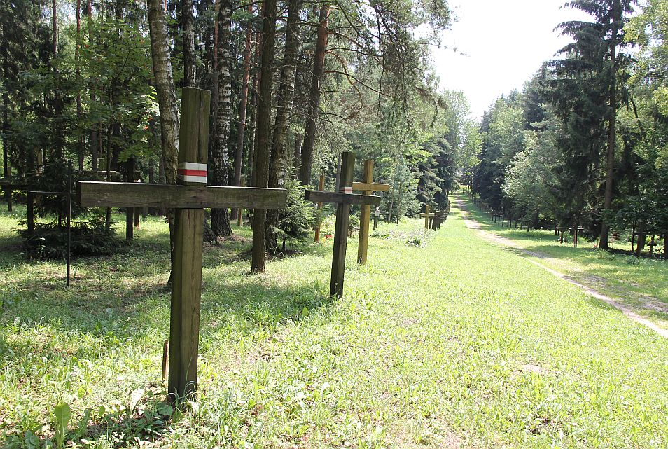 View of Kurapaty forest, mass burial site of victims of great purges in BSSR in 1937-1941.